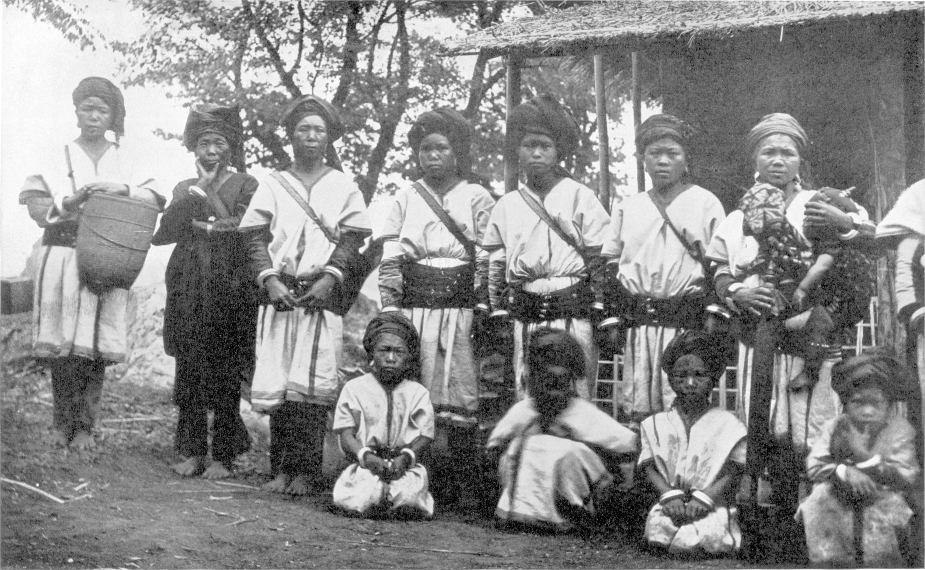 KAREN LADIES POSED FOR THEIR PICTURES BY AN OFFICIOUS HEADMAN The lady on the right is determined that the evil eye shall not fall on her infant. The taking of photographs was by no means an easy matter in the earliest days of the British occupation. It was looked upon as white magic (see text, page 313). One day a chief upon being invited to look at the focusing glass exclaimed, "Why, they're all upside down!" The women took on a conscious attitude on the spot, and the men shifted their feet uneasily, all of them adopting a stained-glass attitude. NDETERMINATE PEOPLE WHO DWELL IN A DEBATABLE LAND: TAUNGYOS OF THE MYELAT The Taungyos are a mixed race who live in the Myelat district between the main plain of Burma and the Shan States proper. A sturdy people, they speak a language full of archaic Burmese words, but deny any relationship to the Burmese. The basket carried by the woman on the is always taken to the market by every woman, filled with vegetables when going there and with Western articles on the homeward journey.